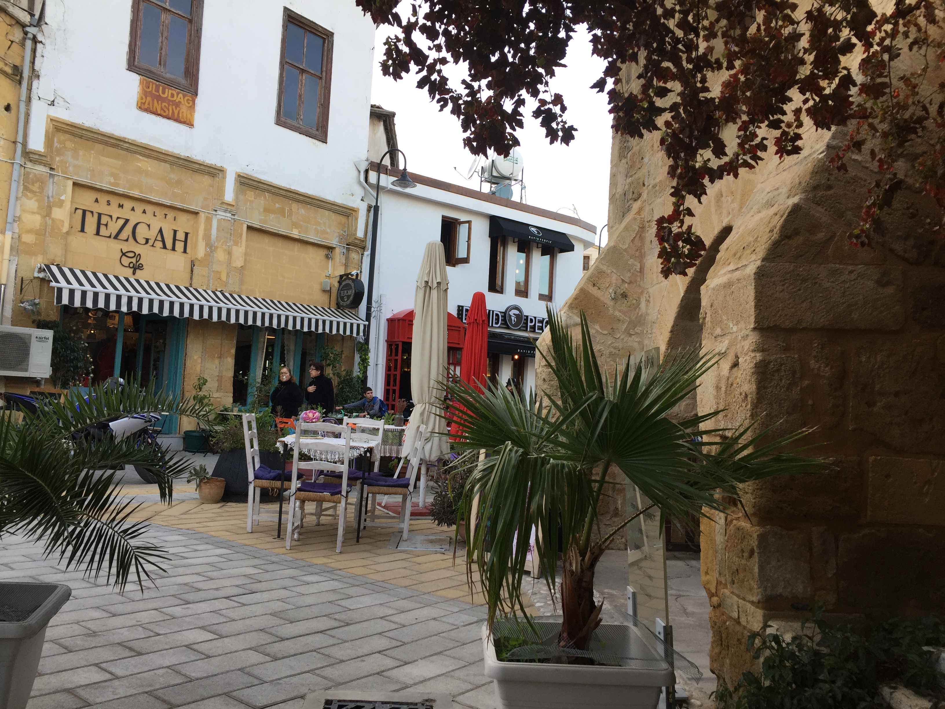 Cafes in Asmaalti Square next to Kumarcilar Hani, North Nicosia, 2018